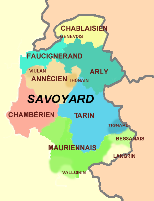 Dialectal classification of the Savoyard language according to the Linguasphere Observatory.